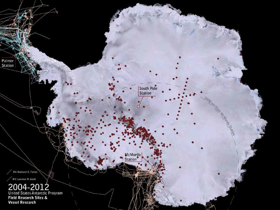 Map showing the US Antarctic Program field research sites and vessel research sites.